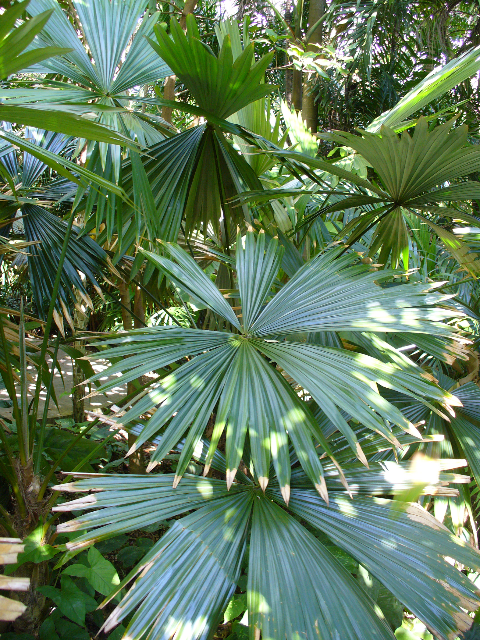 Chelyocarpus ulei Fairchild Tropical Botanic Garden, Miami, Florida, USA